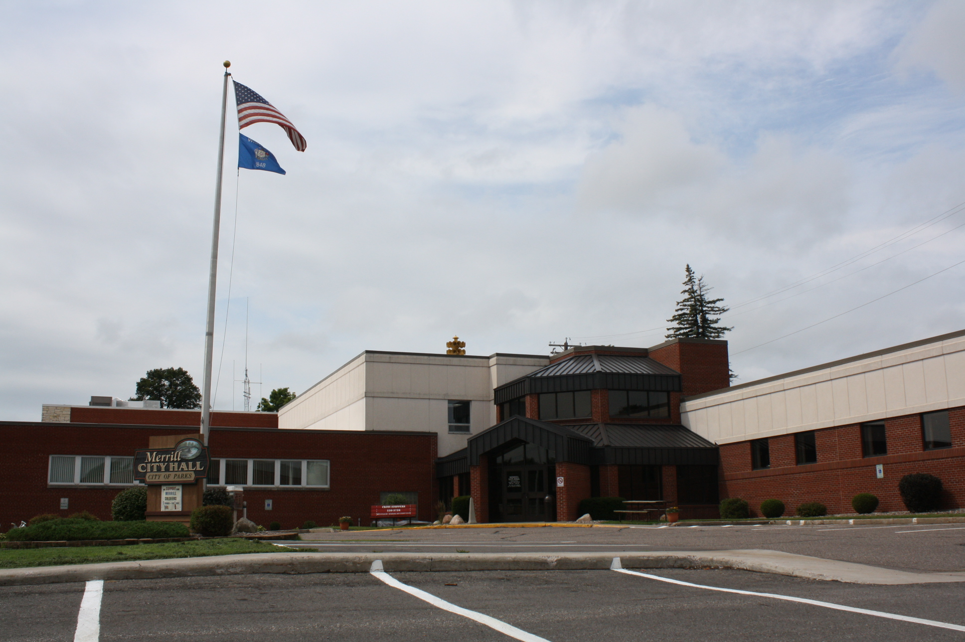 The current city hall in Merrill, Wisconsin.